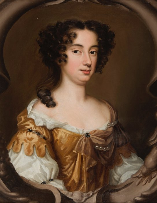 Portrait of Mary Langham (1652-1691), Old presentation plaque on frame reads 'Lady Delamere by Mrs Beale', inscribed on reverse of canvas 'Mary wife to Henry, Earl of Warrington'. Circa 1670. Oil on canvas in a period giltwood frame Dimensions: 89 x 74cm (35 x 29in)